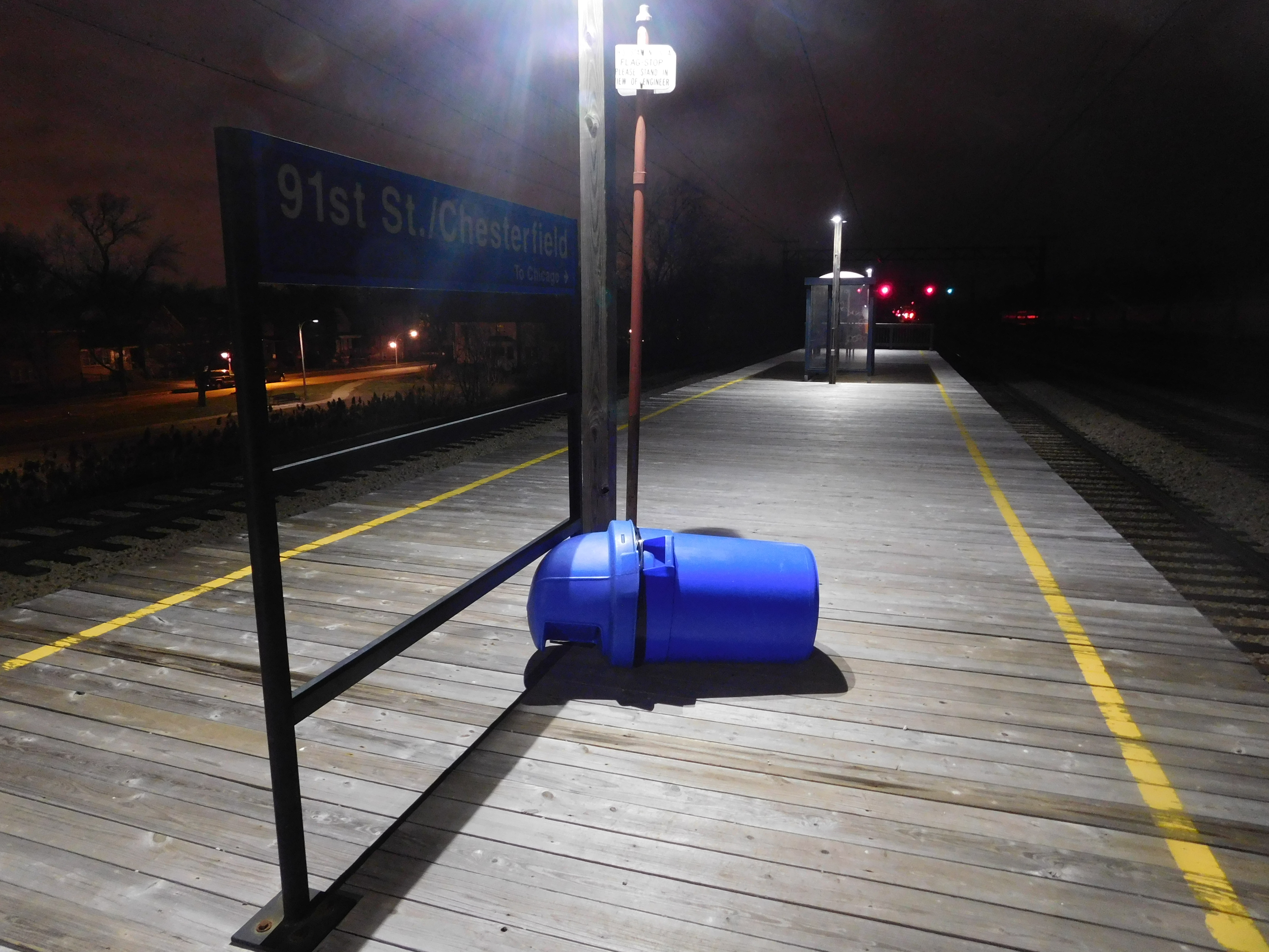 91st Street-Chesterfield station on the Metra Electric Line in January 2019.